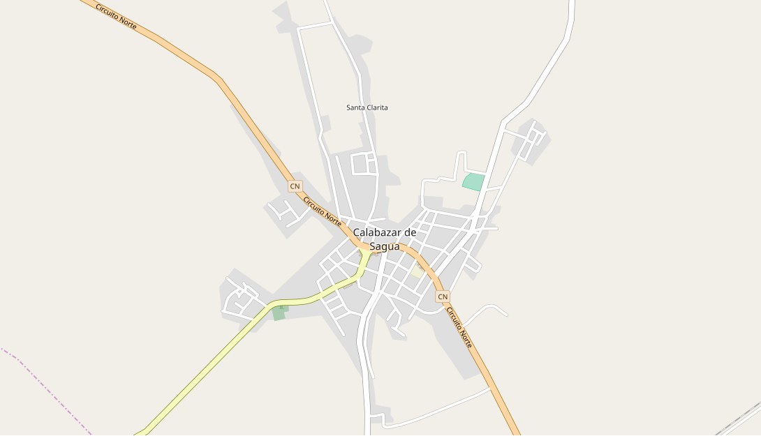 This map may be incomplete, and may contain errors. Don't rely solely on it for navigation.